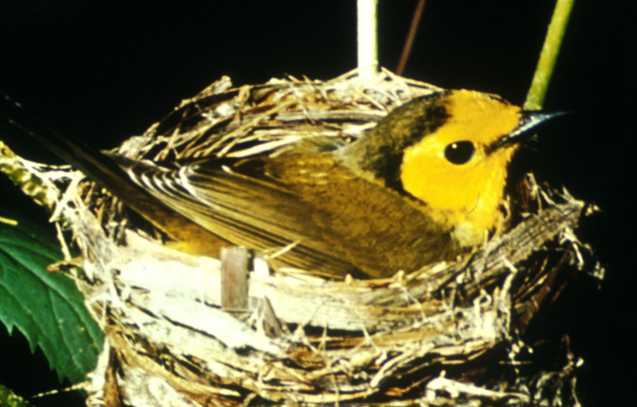 Hooded Warbler (Wilsonia citrina)